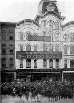 First urban 5 and dime store owned by Seymour Knox I